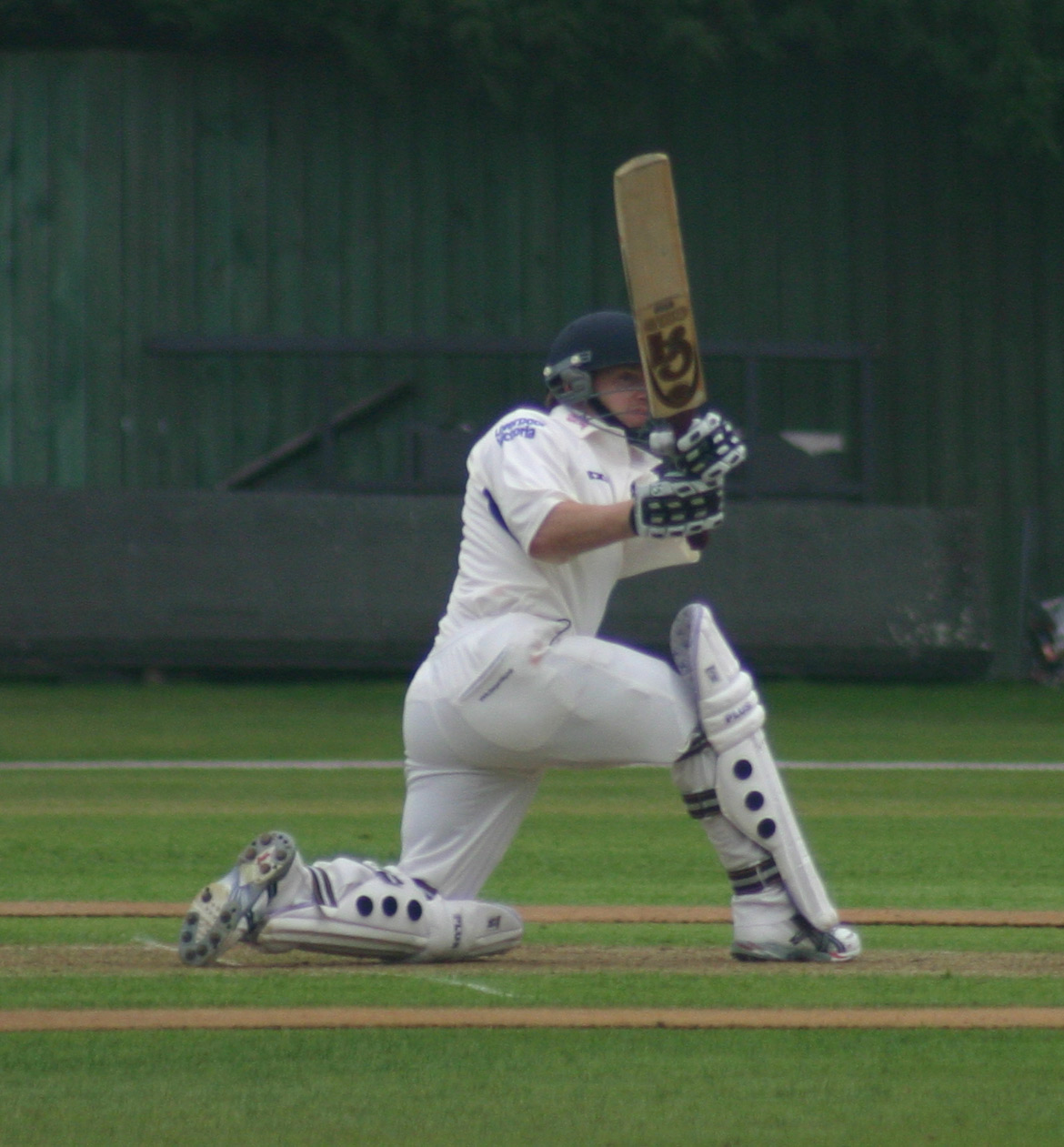 Ian Westwood bringing up his century with a sweep shot for Warwickshire against Cambridge UCCE, at Fenner's cricket ground in Cambridge, 15 April, 2006. Photograph taken by Stephen Turner and released under the GFDL.